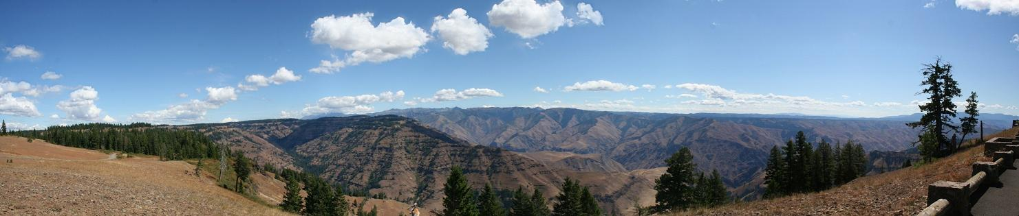 Hells Canyon from Hells Canyon lookout in Oregon. Summer of 2007.